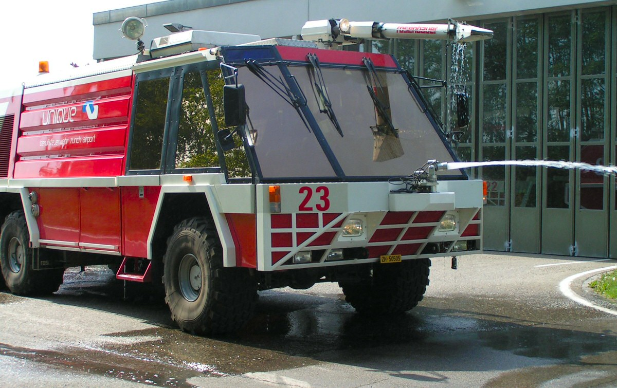 Crash Tender at Zurich Kloten Airport, Switzerland